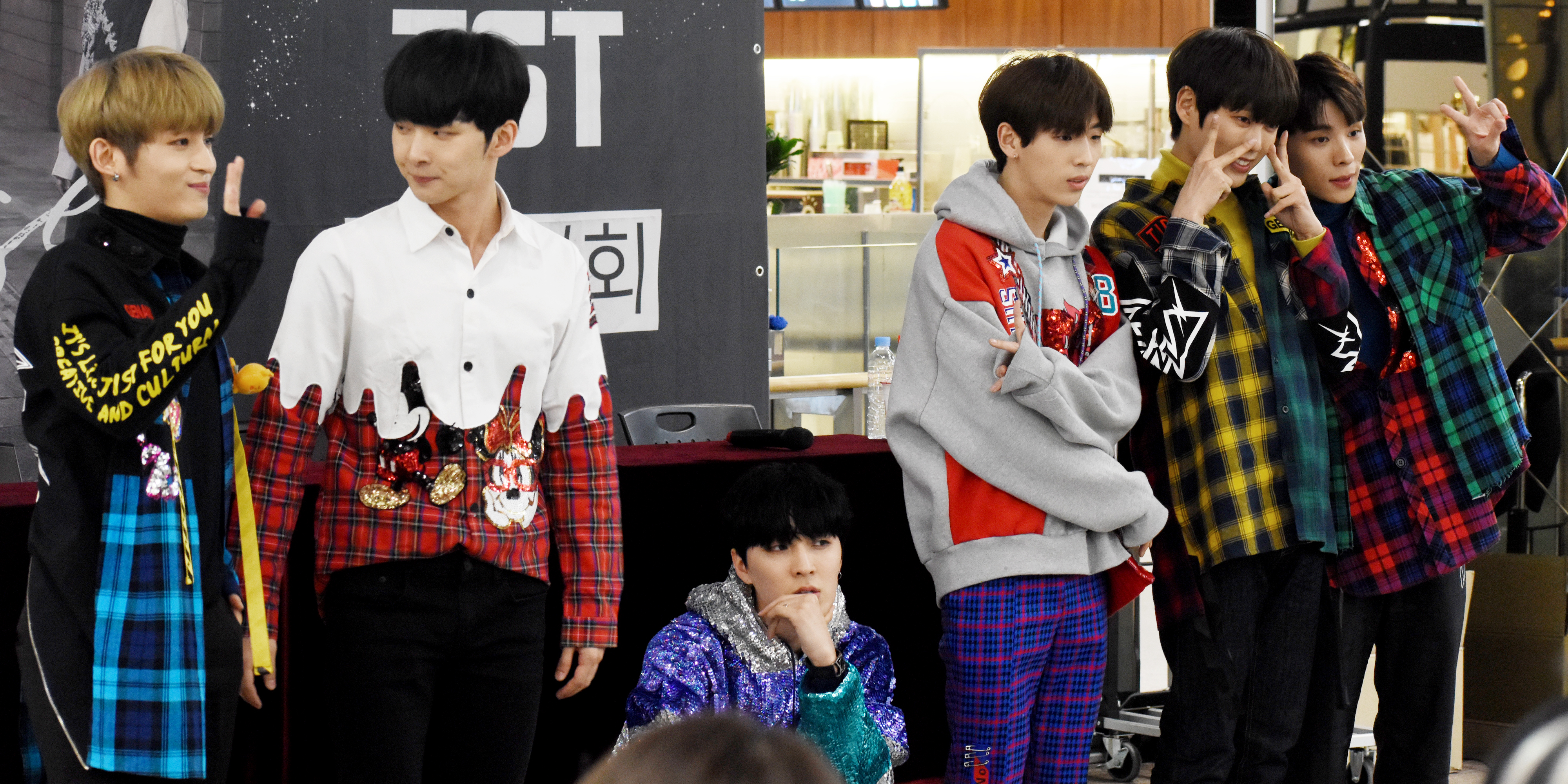 TST at a fansign event at the Gimpo International Airport branch Lotte Mall on November 4, 2018.